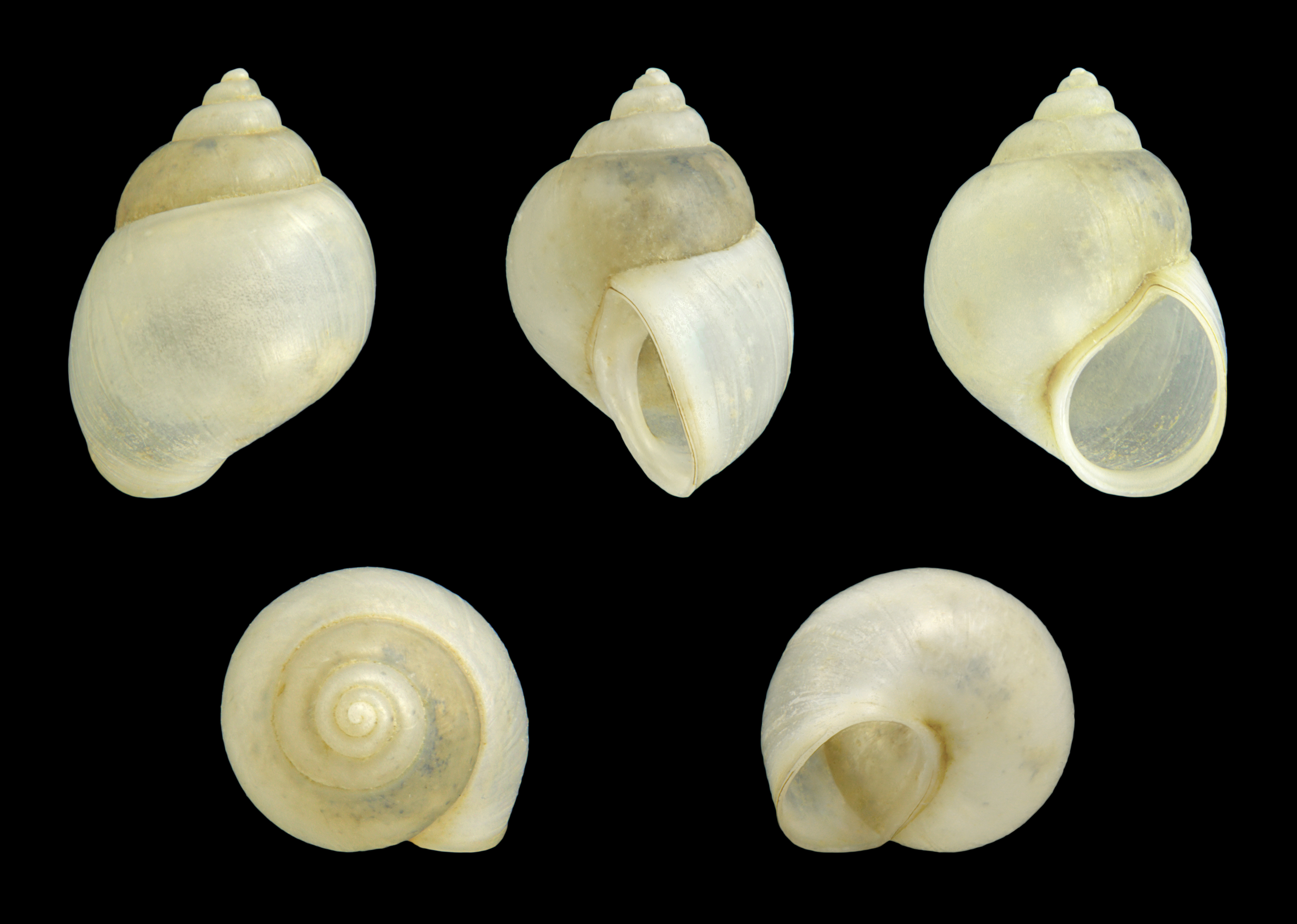 Mud Bithynia; Length 0.9 cm; Originating from Rappenwörth, Karlsruhe, Germany; Shell of own collection, therefore not geocoded. Dorsal, lateral (right side), ventral, back, and front view.